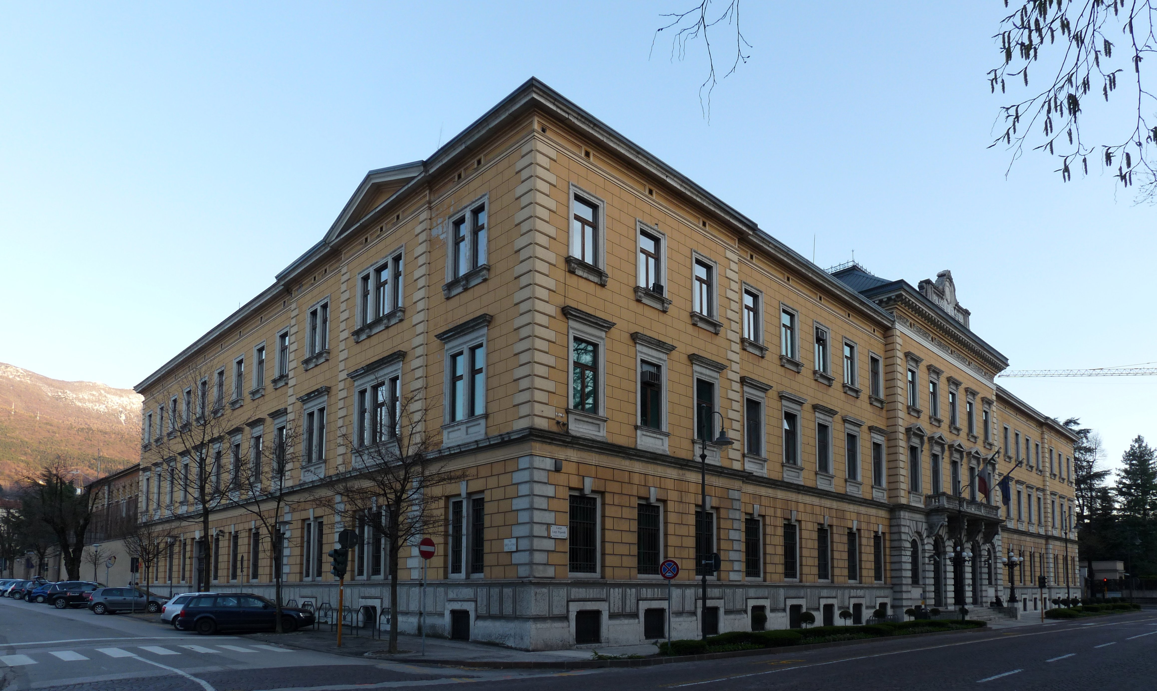 Trento (Italy): Palazzo di Giustizia viewed from north-west.